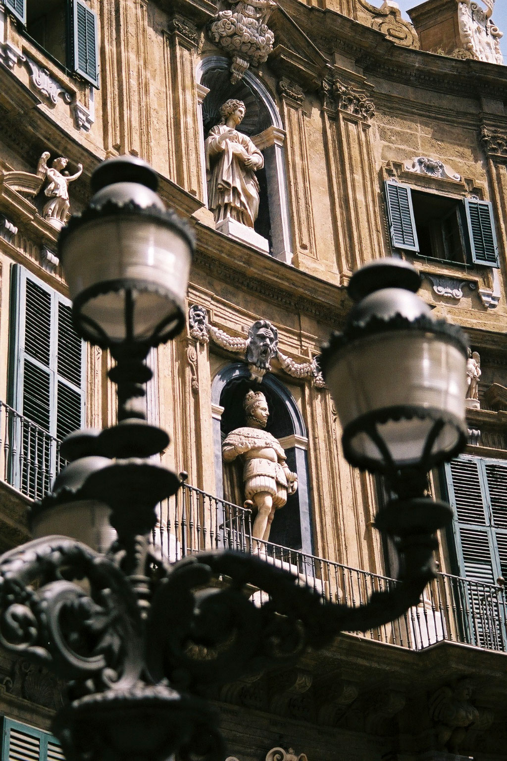 Quattro Canti, Palermo. Street lantern.